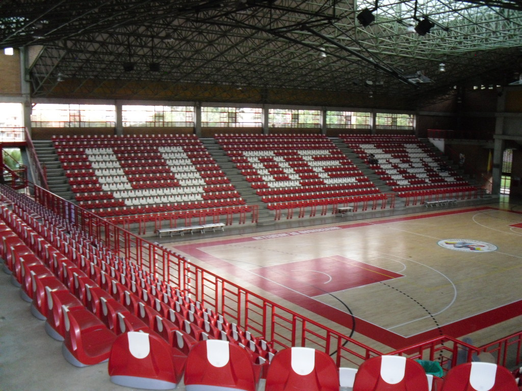 Coliseo UdeM